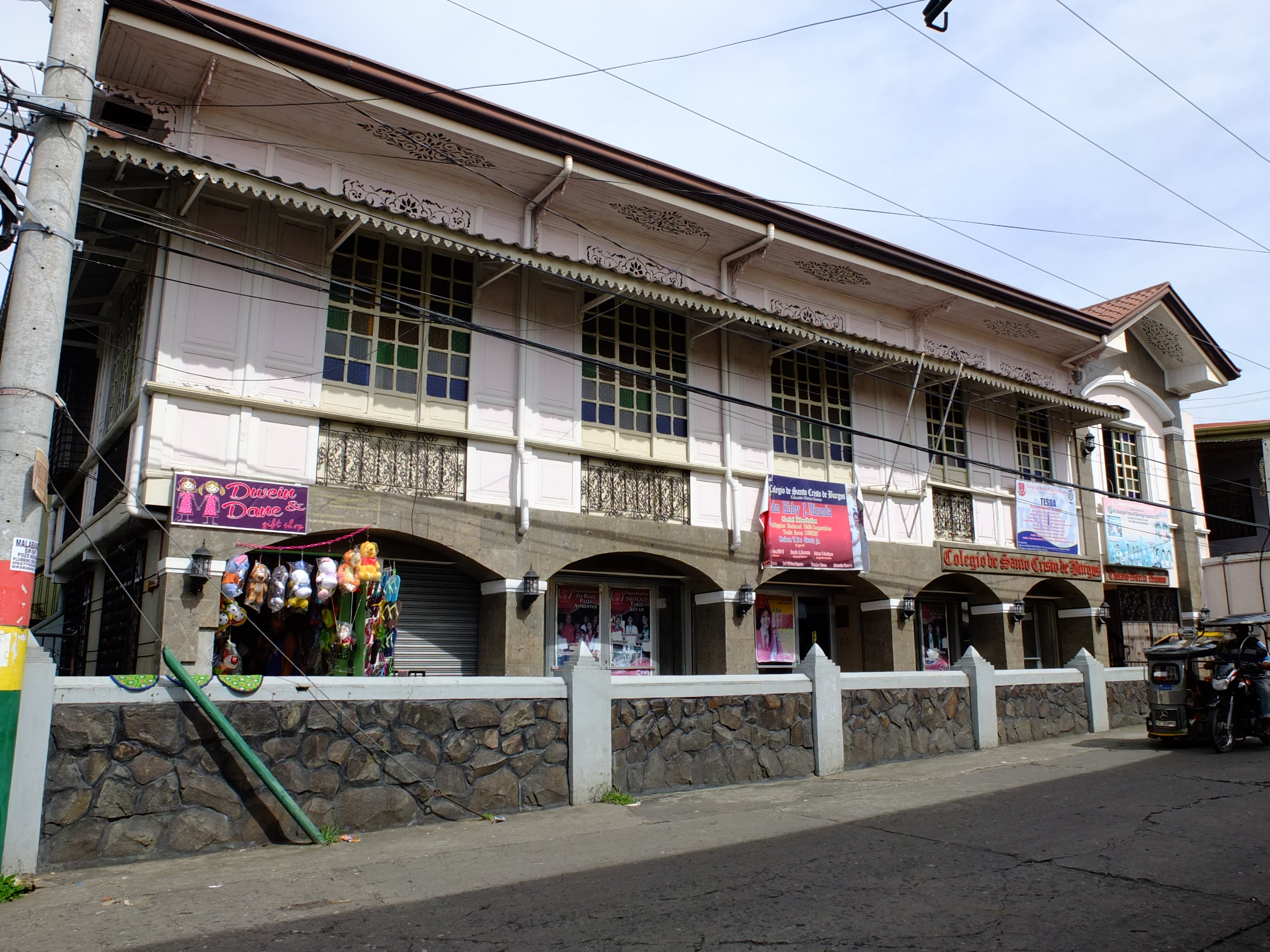 formerly Felino and Pacita de Luna House